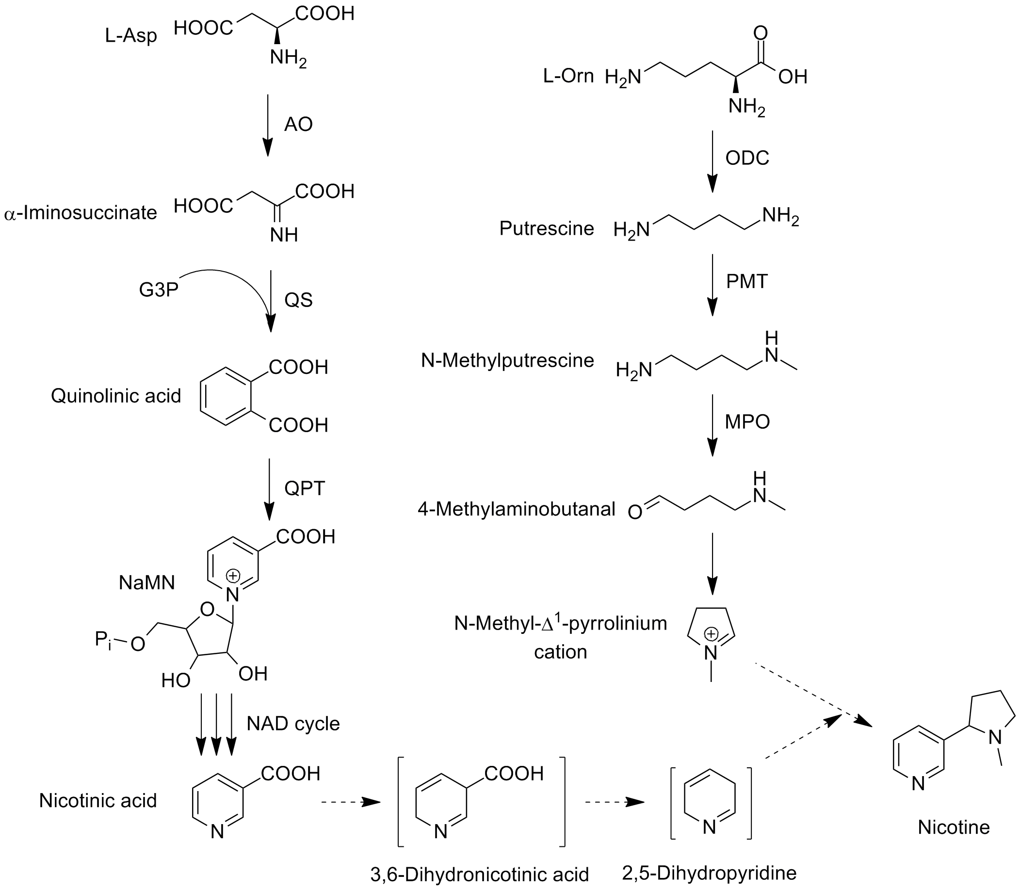 Agreed biosynthetic pathway of nicotine as of june 2012